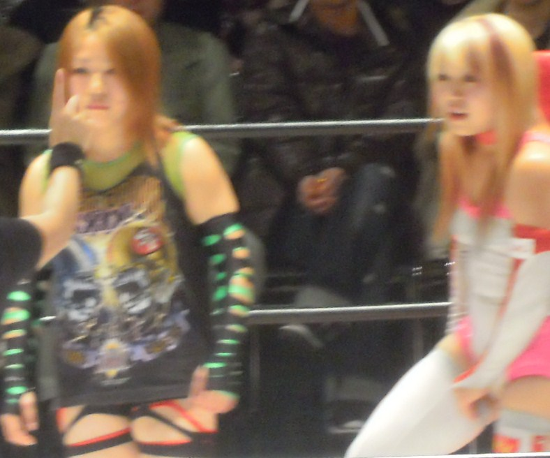 Japanese professional wrestlers team,Jumonji Sisters. Dec 5 2010 Sendai-Girls ZeppSendai.